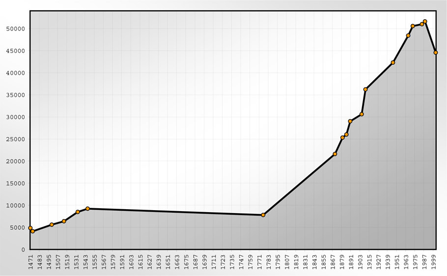 This image shows the population statistics of Freiberg (Saxony, Germany).